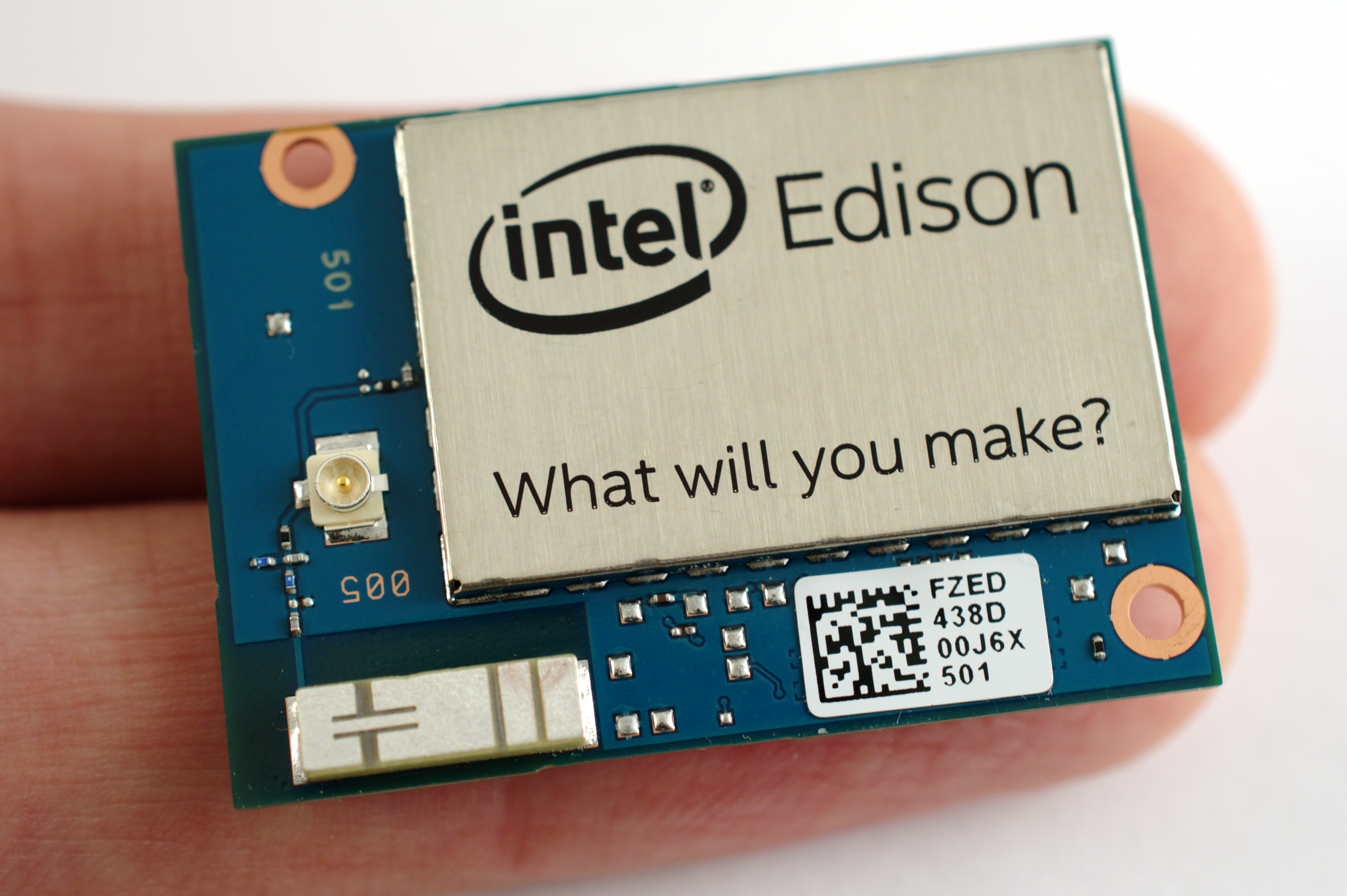 Intel Edison single-board computer with Arduino-compatible breakout board. Provided as a press sample by Intel UK.